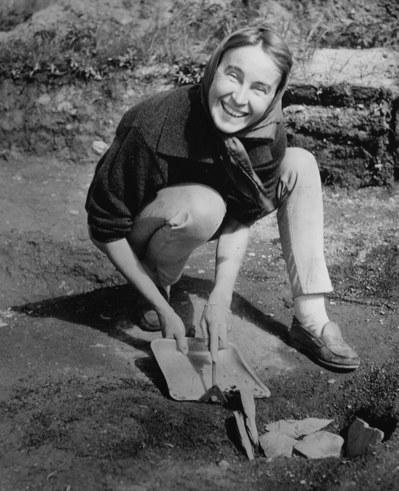 Norwegian archeologist Anne Stine Moe Ingstad (1918-1997) discovered the remains of a Norse settlement in Newfoundland and was author of The Norse Discovery of America (1977). In this photograph distributed by the National Geographic Society, Ingstad "examines a fire pit at the site of what is believed to be a Norse house dating from about A.D. 1000